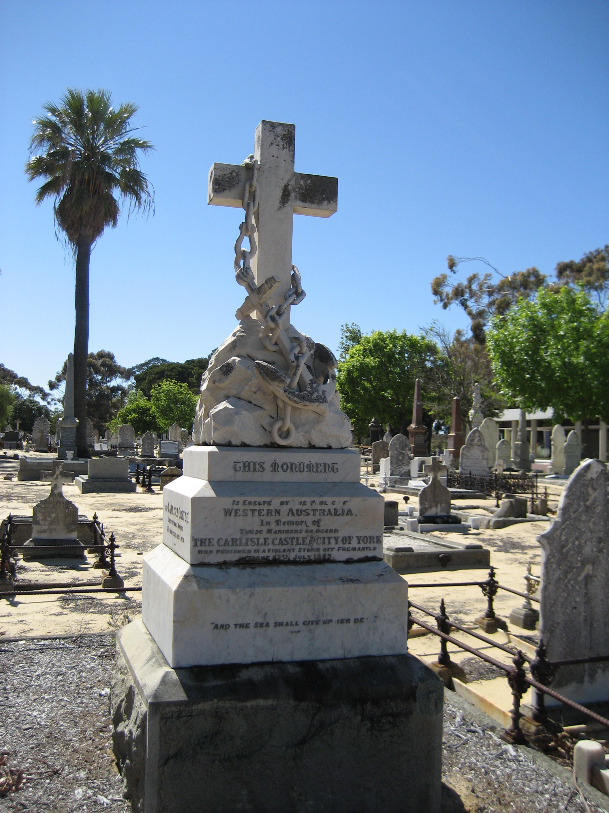 Carlisle Castle/City of York memorial at Fremantle Cemetery. See also Image:Carlisle Castle, City of York memorial. Fremantle1.jpg for detail. See City of York (barque)